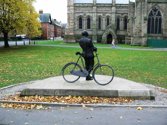 Sir Edward Elgar facing Hereford Cathedral This sculpture was erected in 2005 by the Elgar in Hereford group. This link gives some interesting information about the archaeology immediately beneath the sculpture site.